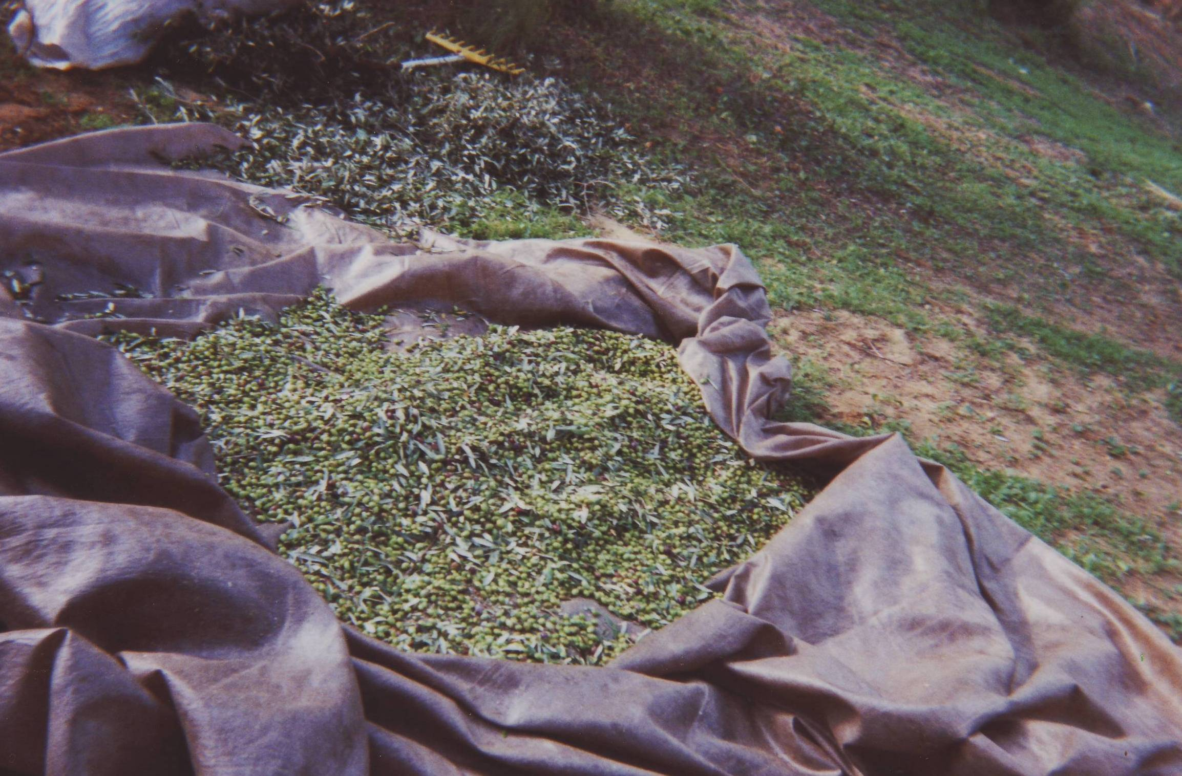 A pile of harvested olives.